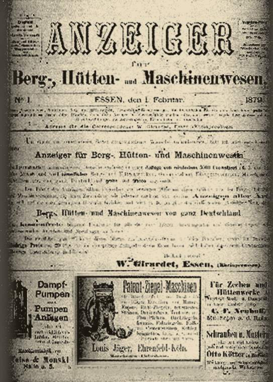 First Edition February the 1st, 1879